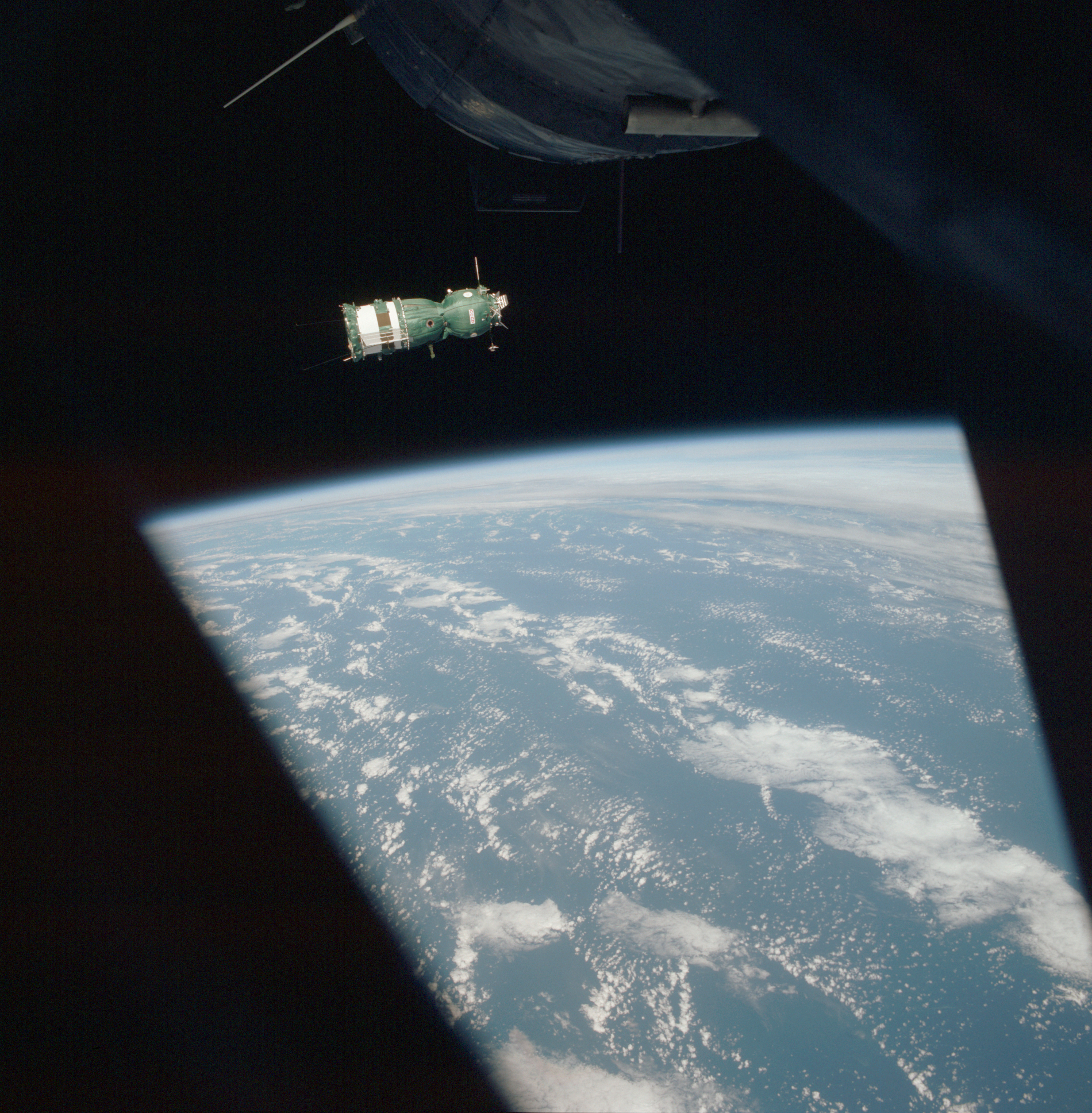 This scene was photographed with a handheld 70mm camera from a rendezvous window of the American Apollo spacecraft in Earth orbit during the Apollo-Soyuz Test Project (ASTP) mission. It shows the Soviet Soyuz spacecraft contrasted against a black-sky background with the Earth's horizon below. The American Docking Mechanism (DM) is visible at the top of the picture.